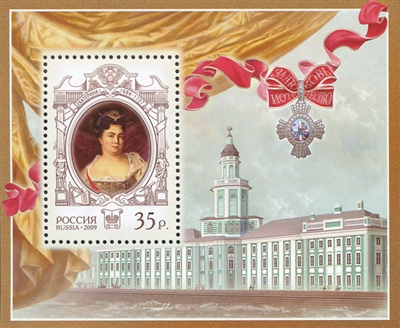 History of the Russian State - 300th Anniversary of the Birth of Ekaterina I Alekseevna